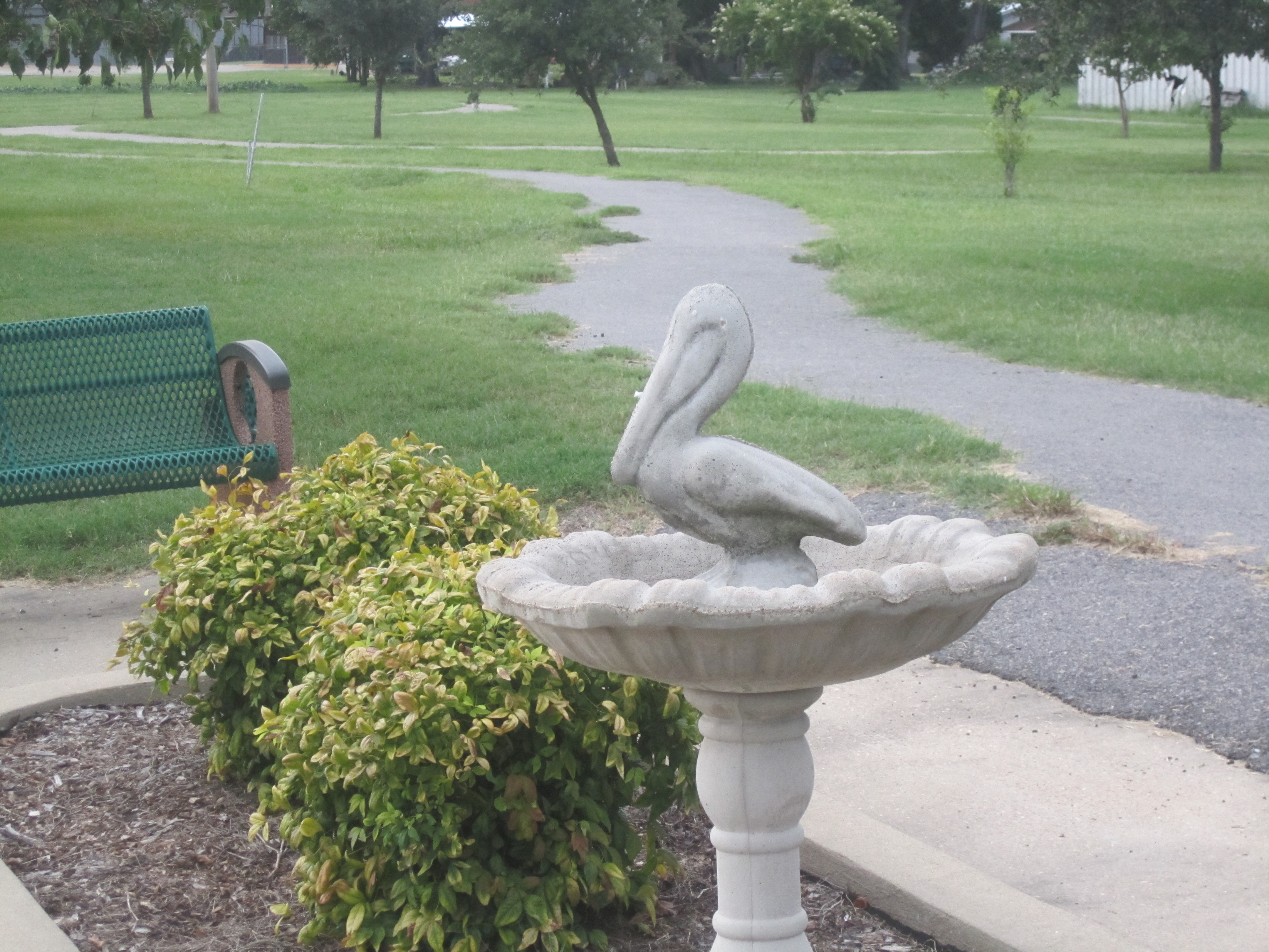 I took photo with Canon camera in Wisner, LA.